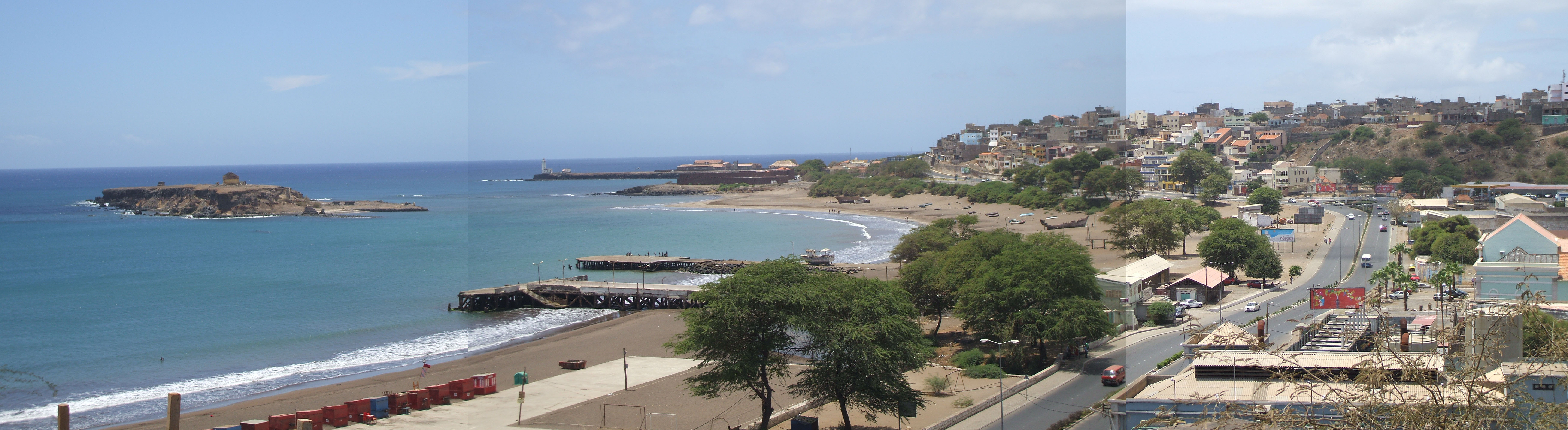 View over Gamboa from Plateau, in Praia